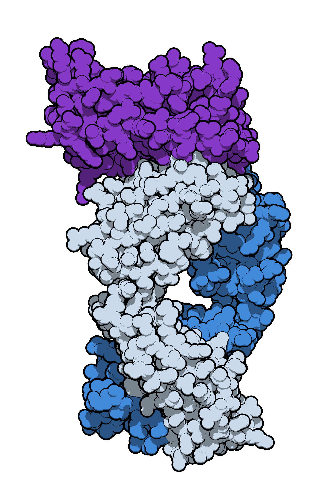 Space-filling model of the Fab fragment of the monoclonal antibody sifalimumab (blue) bound to its target, IFN-α2 (purple). Style made to resemble the Protein Data Bank's "Molecule of the Month" series, illustrated by Dr. David S. Goodsell of the Scripps Research Institute. Created using QuteMol ( Optimized with OptiPNG.